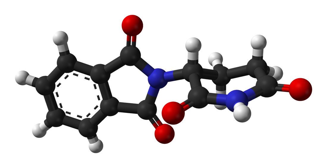 Ball-and-stick model of the (R)-thalidomide molecule as found in the crystal structure. X-ray diffraction data from F. H. Allen and James Trotter (1971). "Crystal and molecular structure of thalidomide, N-(α-glutarimido)-phthalimide". J. Chem. Soc. B: 1073-1079.